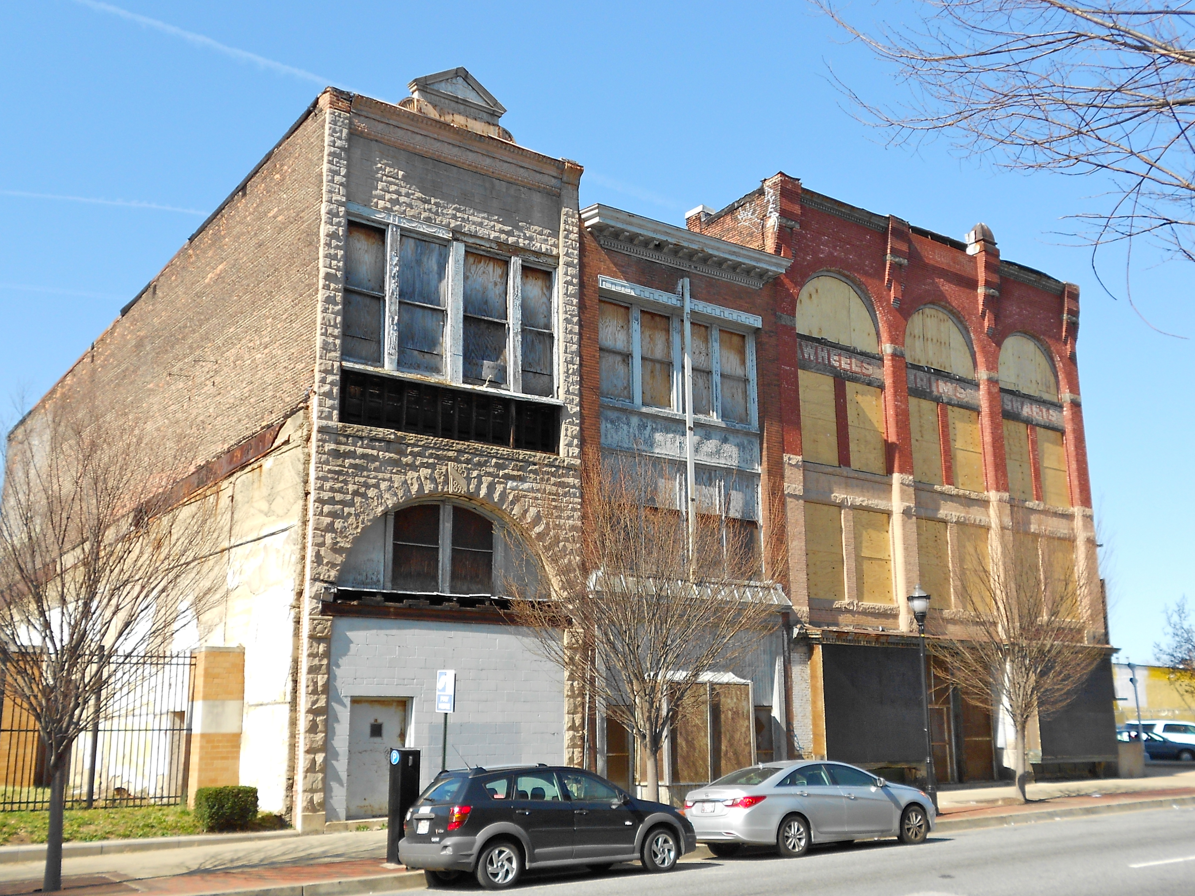 Gay Street Historic District on the NRHP since November 21, 2003. The historic district is bounded by N. Gay, Fallsway, Low and N. Exeter Sts. in southeast Baltimore, Maryland.